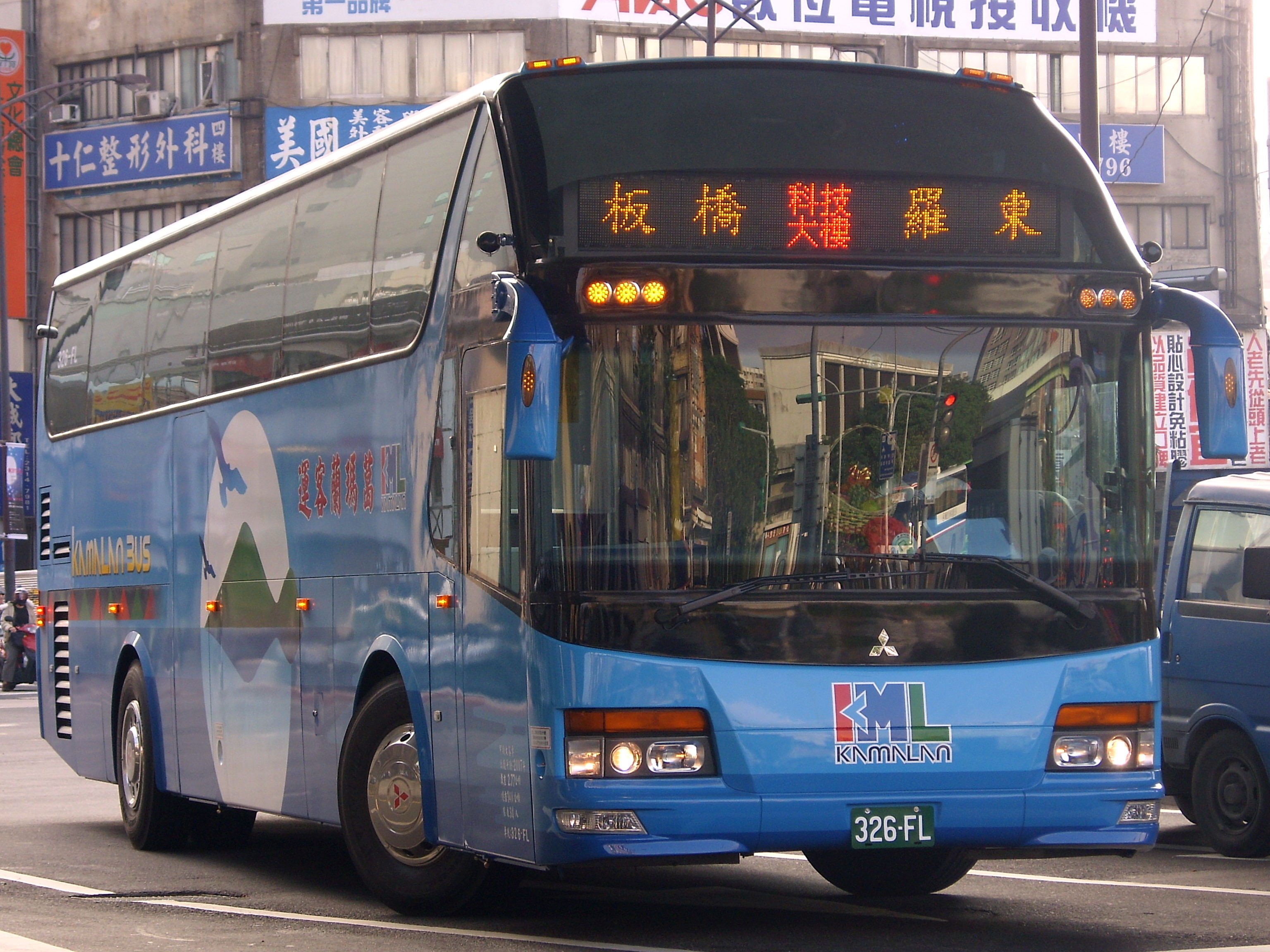 Fuso RM11FNL4 bus 326-FL by Kamalan Bus Inc.